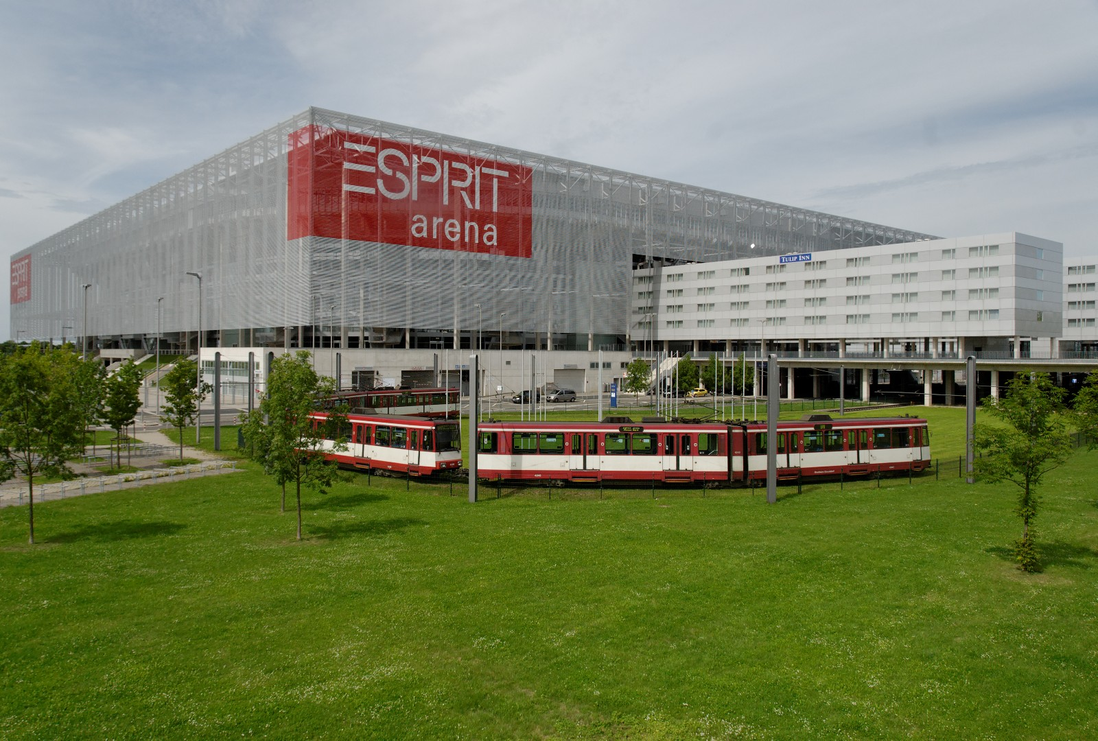 ESPRIT arena in Düsseldorf-Stockum, Germany